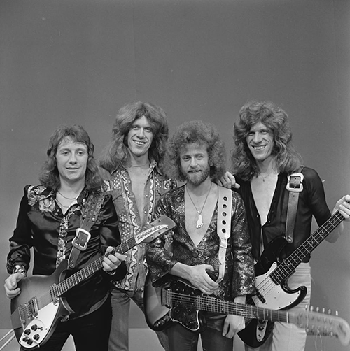 The Shoes in AVRO's TopPop (Dutch television show) in 1974